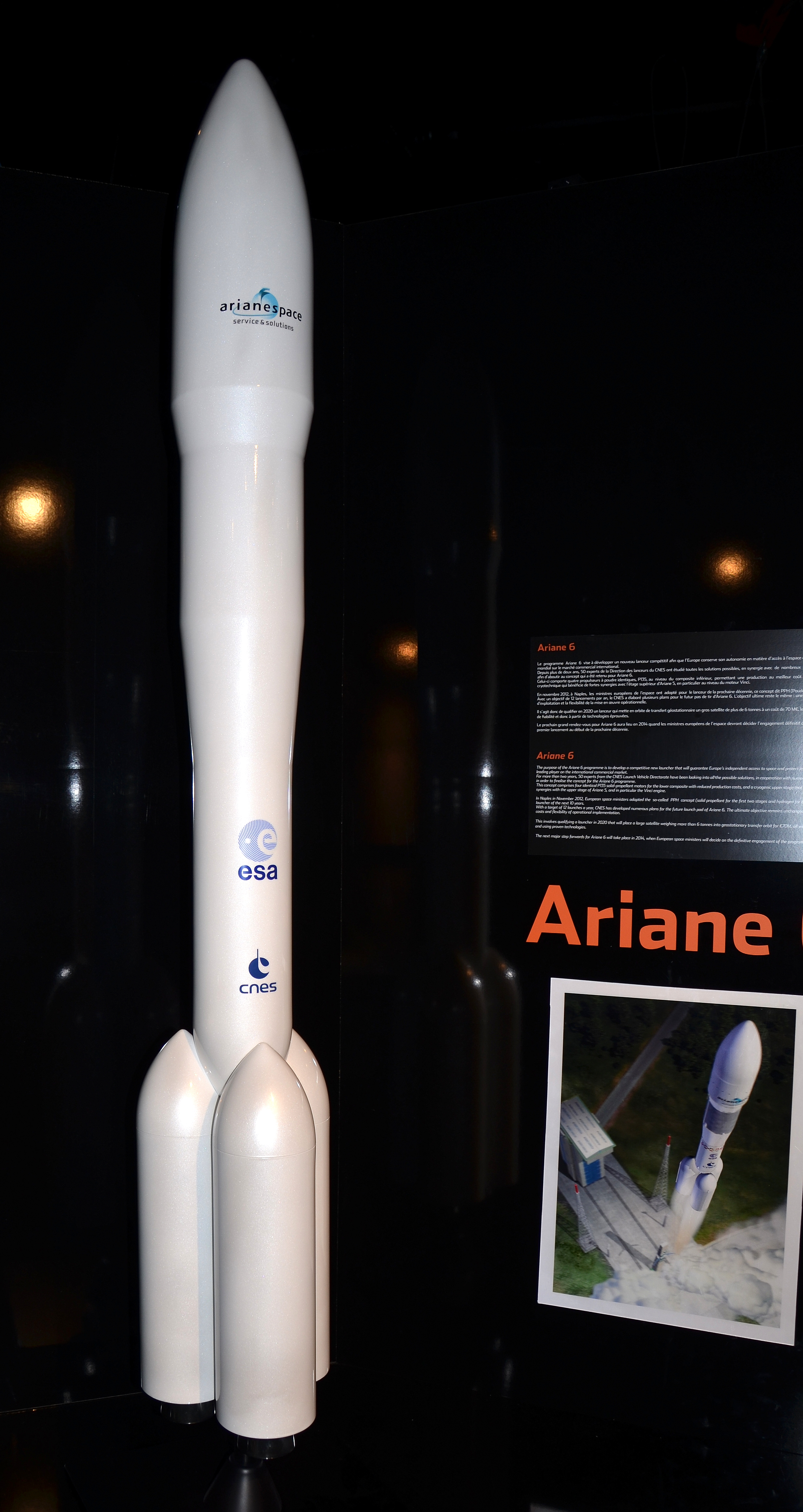 Mockup of one proposed Ariane 6 variant (currently discarded) as displayed on Paris Air Show 2013